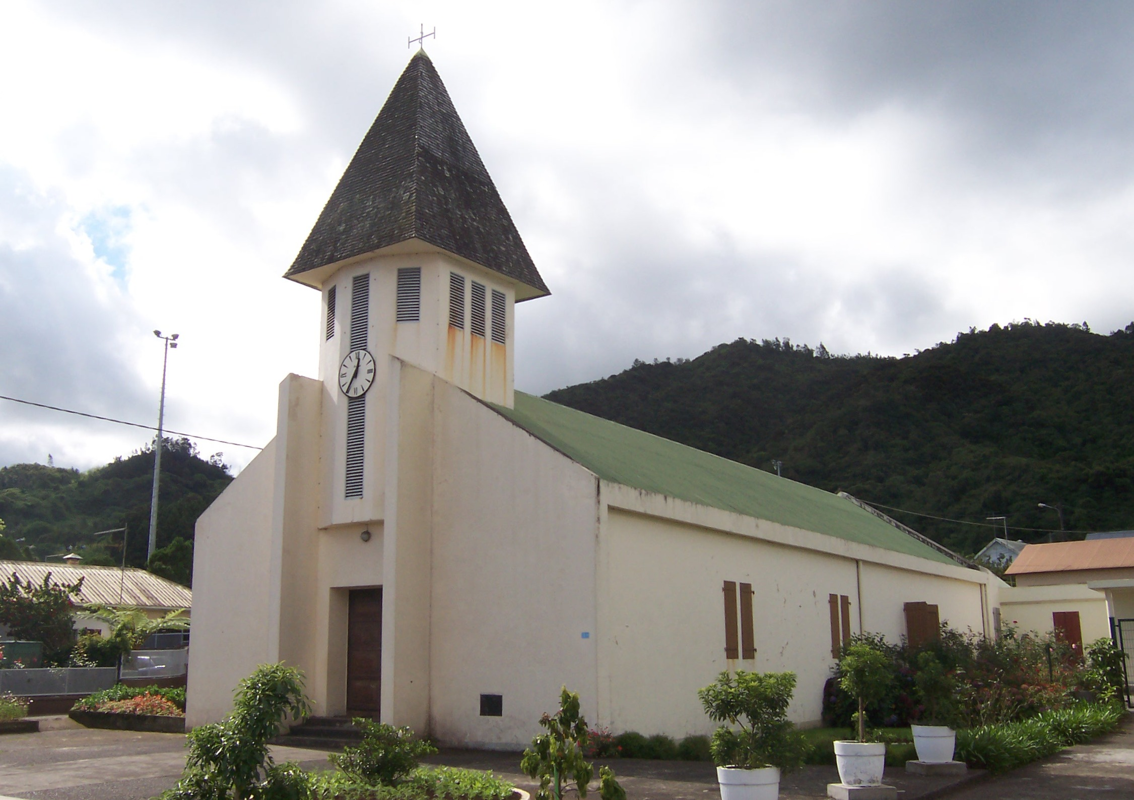 Le Tévelave's church (Réunion island)